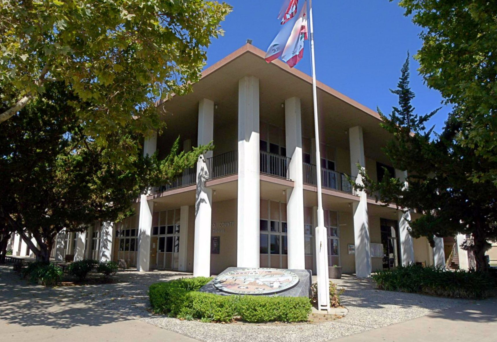 The southeast corner of the former San Benito County Courthouse, built in the 1960s, Hollister, California.